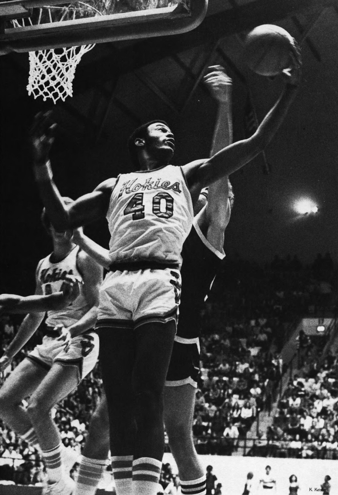 Wayne Robinson for the Virginia Tech Hokies pulls in a rebound